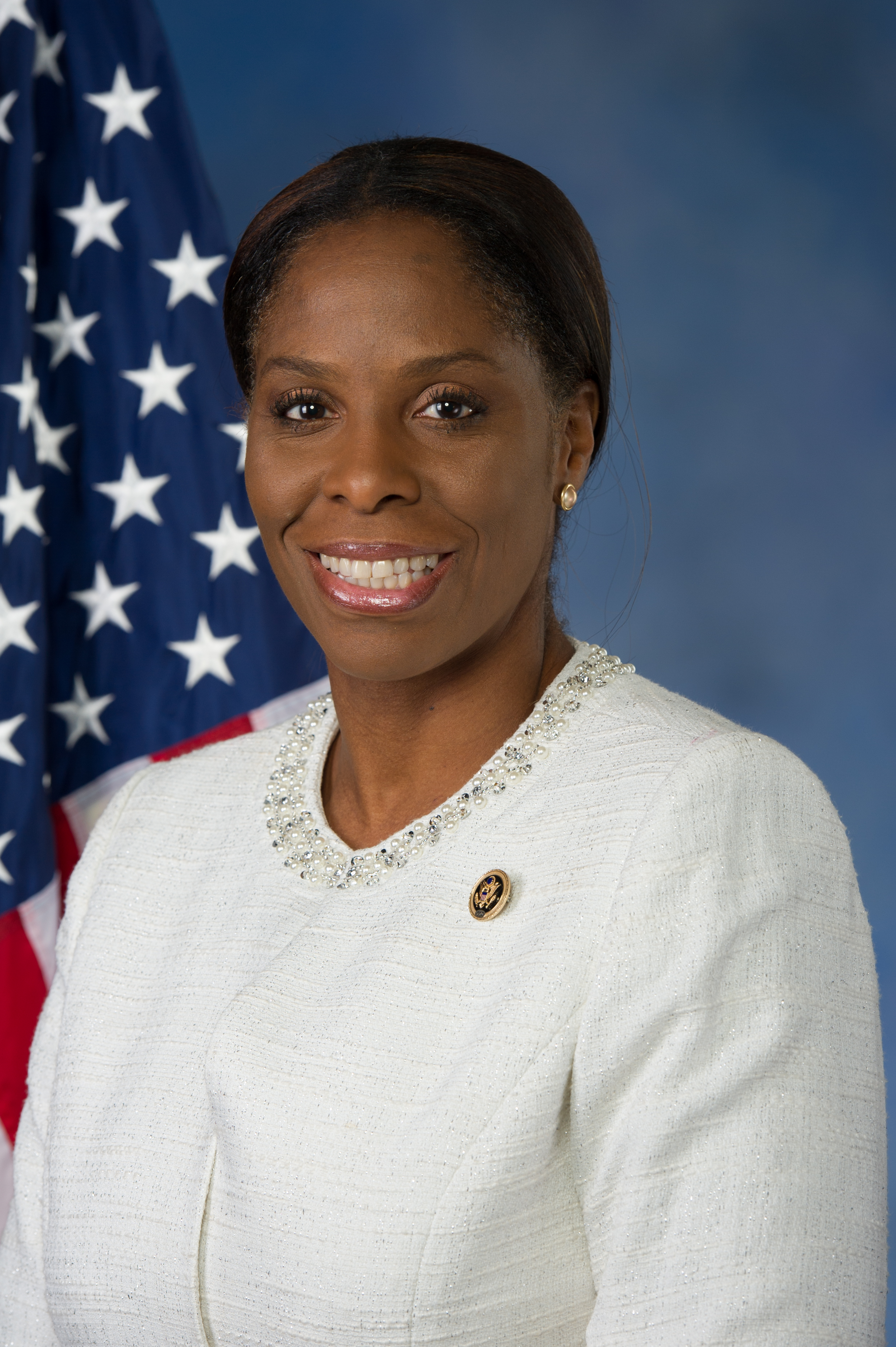 Stacey Plaskett, member of the United States Congress.